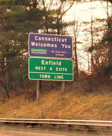 Enfering Enfield, Connecticut